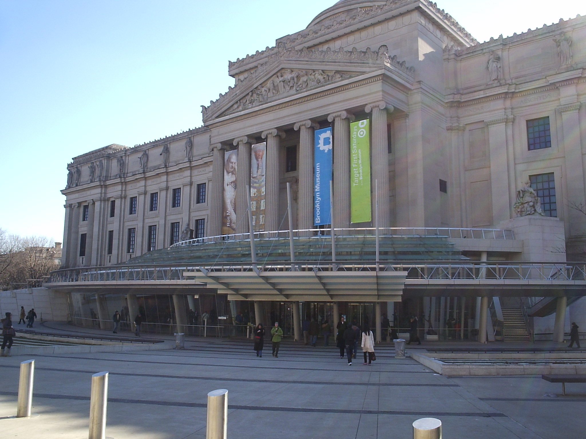 The front of the Brooklyn Museum, taken February 3rd, 2007